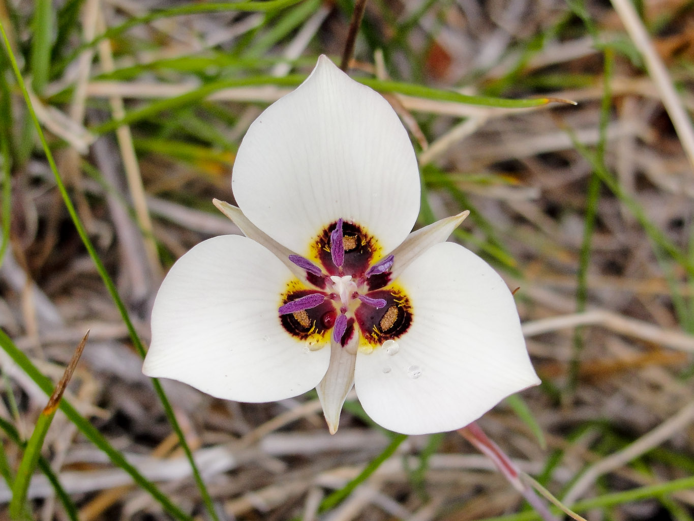 Inyo County star tulip (Calochortus excavatus) on Tyee Lakes Trail